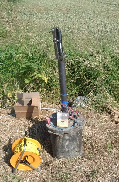 A photo of an seismic source called 'Betsy Gun'. Own photo.